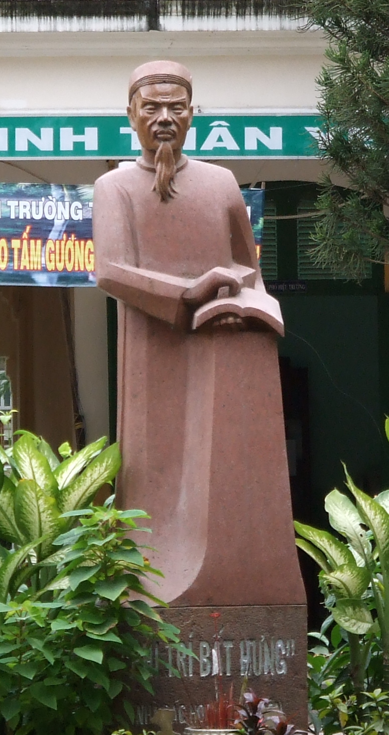 Statue of Le Quy Don cropped